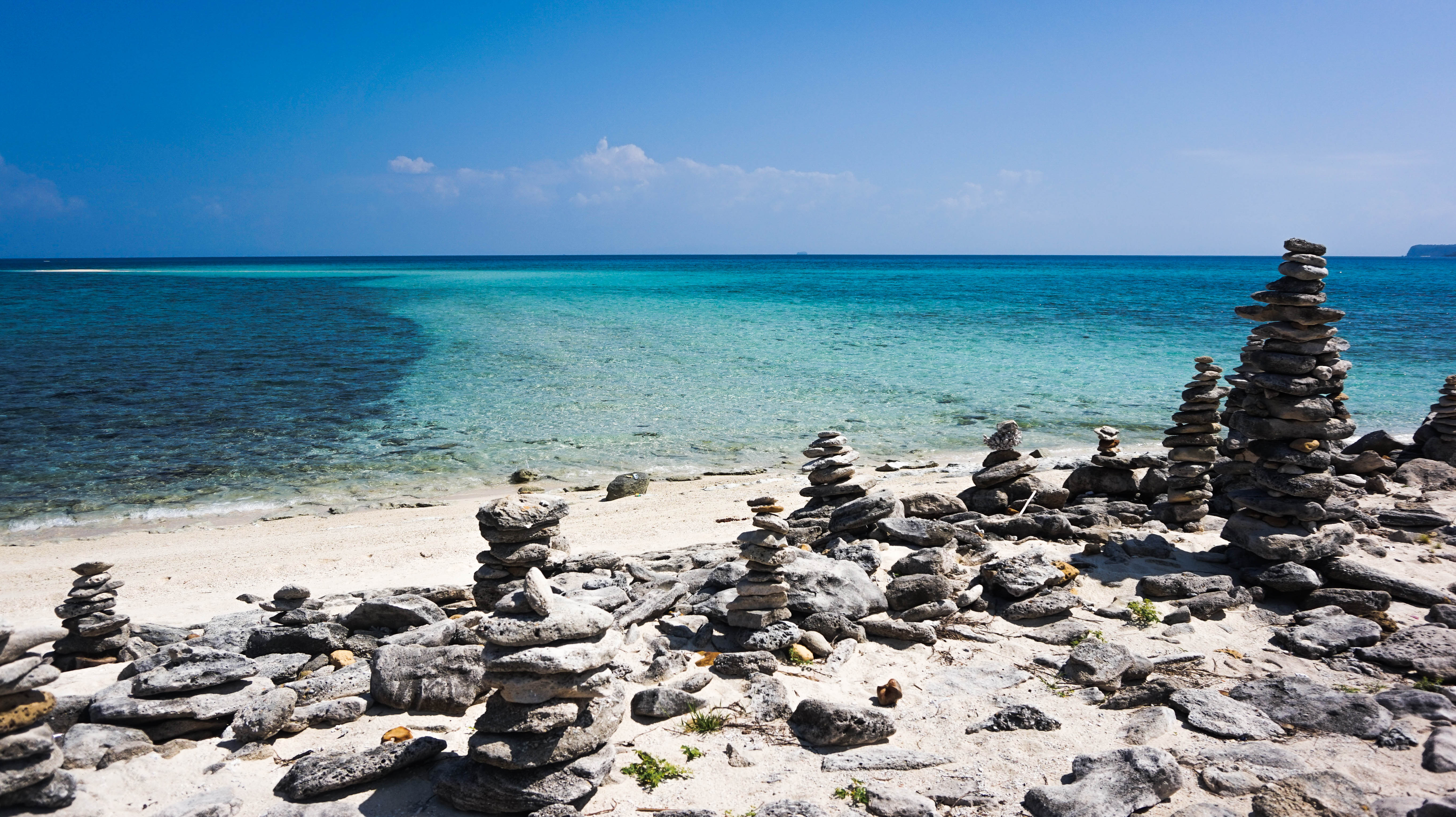 Animasola Island is part of Burias Group of Islands at San Pascual, Masbate Province, Philippines